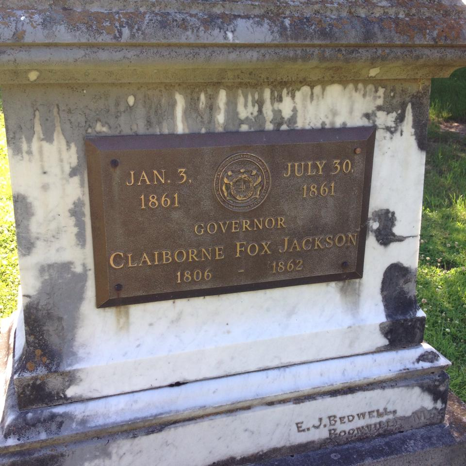 Tombstone of former Missouri Governor Claiborne F, Jackson. Located in Sappington Cemetery State Historic Site near Arrow Rock, Missouri.